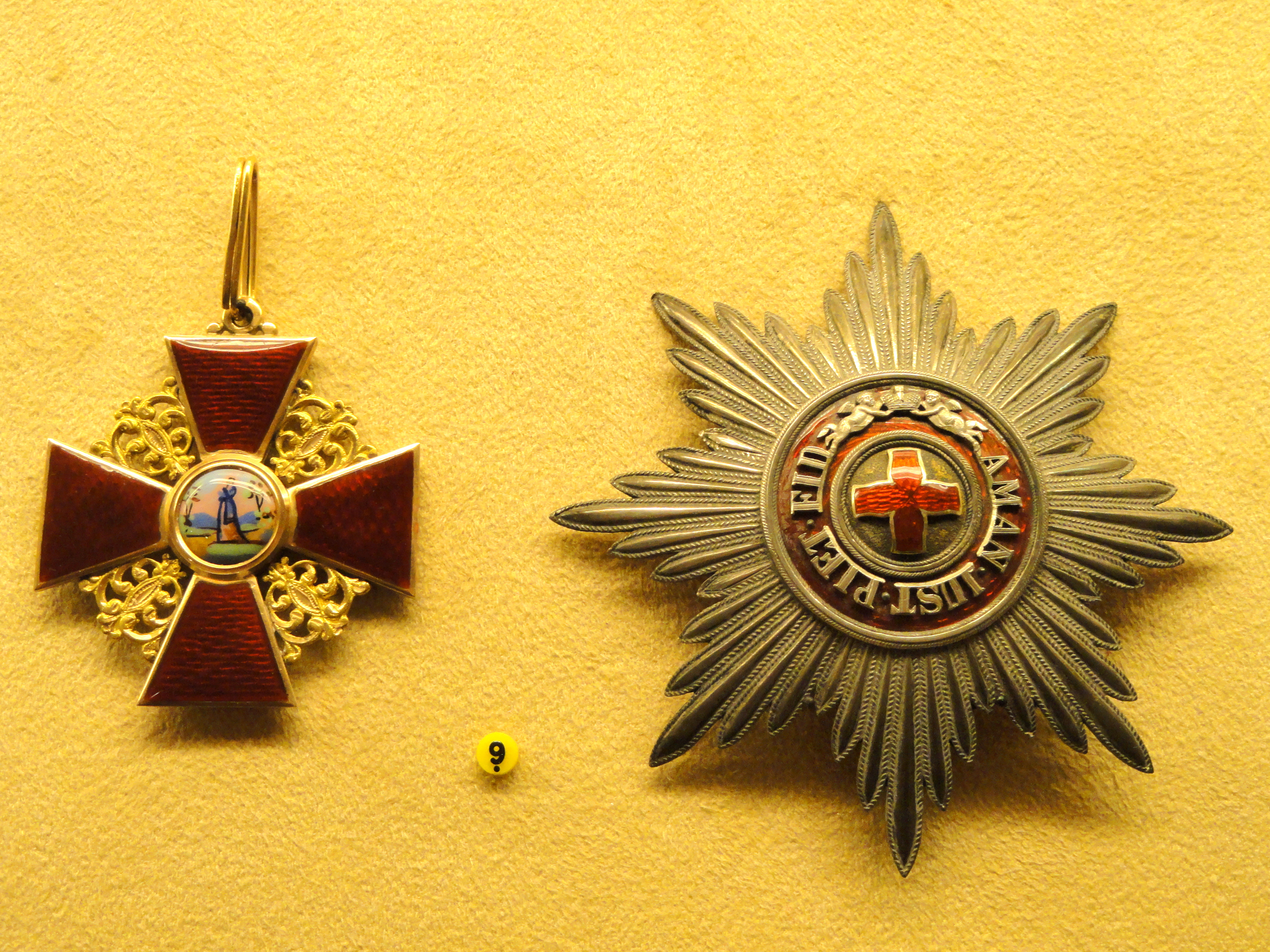 Award in the National Museum of Finland, Helsinki, Finland. This artwork is in the public domain because the artist(s) died more than 70 years ago.